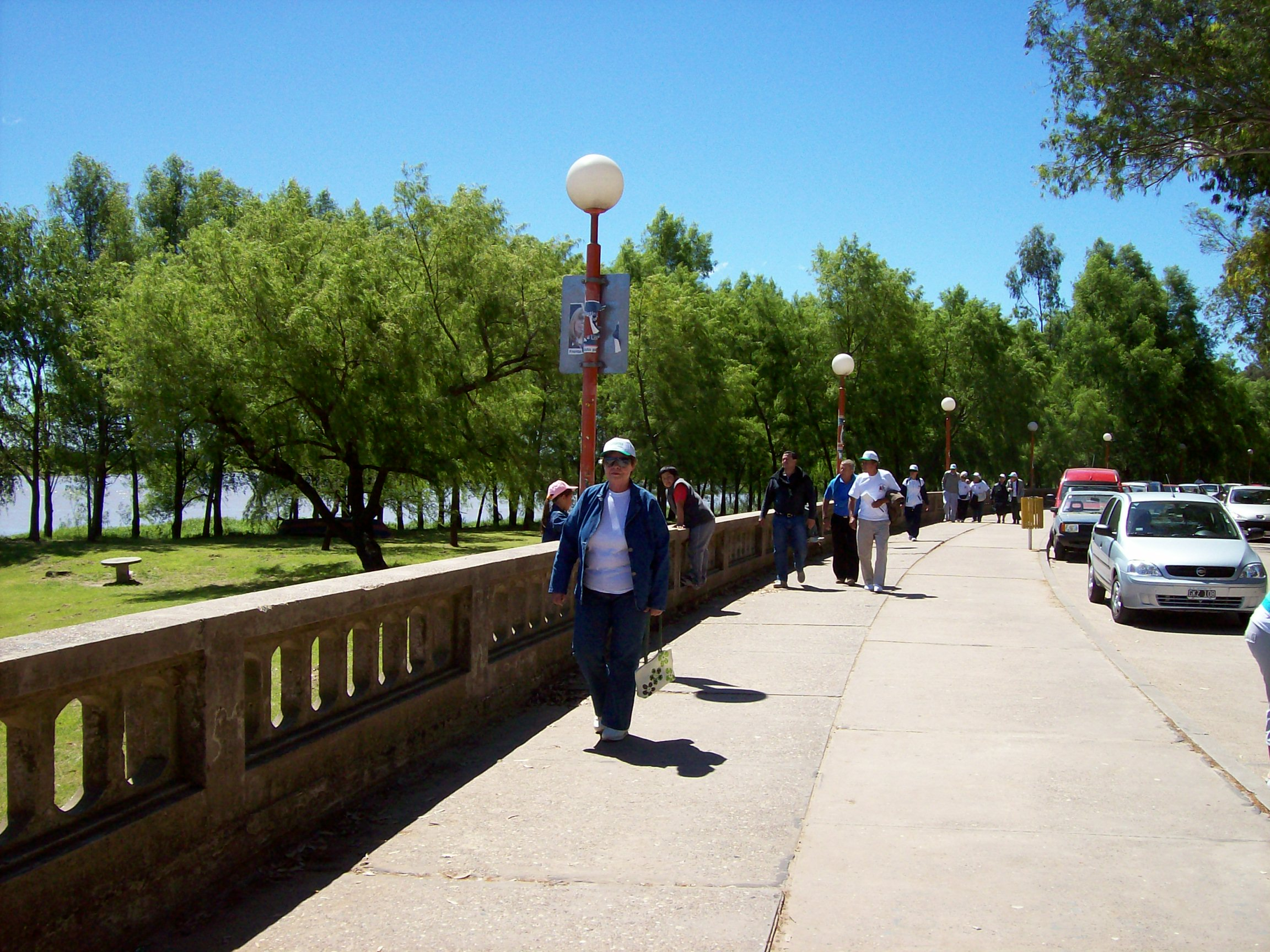 Sidewalk by the beach in Victoria, Entre Ríos, Argentina.